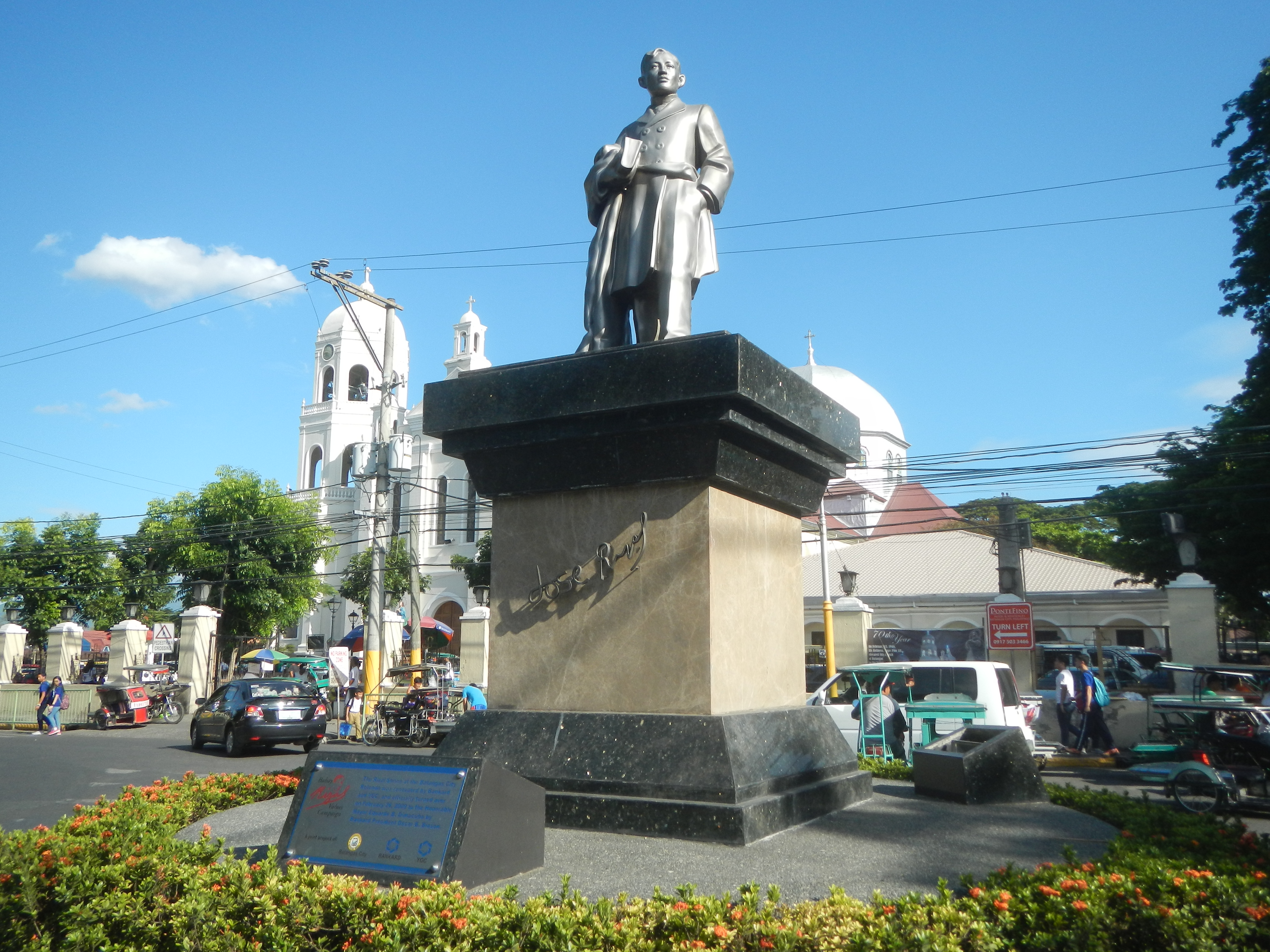 Welcome Order of the Knights of Rizal (Poblacion, Batangas City) Rizal Monument, Batangas City Knights of Rizal Roads in Batangas City, Diversion Road to National Road (Alangilan - Kumintang), Batangas City to City Proper (P. Burgos, M. H. Del Pilar, Panganiban & P. Dandan Streets and Rizal Avenue - Poblacion) of Batangas City Restoration of the Minor Basilica of the Immaculate Conception (Batangas City) Barangay Poblacion Batangas City (Note: Judge Florentino Floro, the owner, to repeat, Donor Florentino Floro of all these photos hereby donate gratuitously, freely and unconditionally all these photos to and for Wikimedia Commons, exclusively, for public use of the public domain, and again without any condition whatsoever).